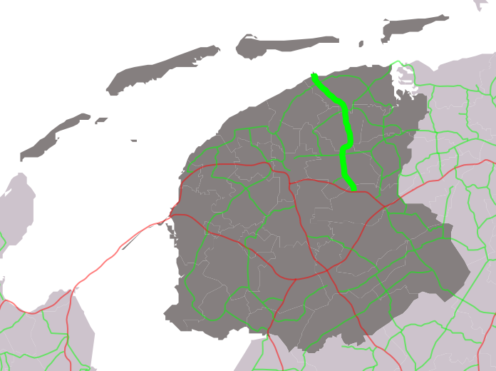 Map of Friesland with Dutch provincial road no. 356